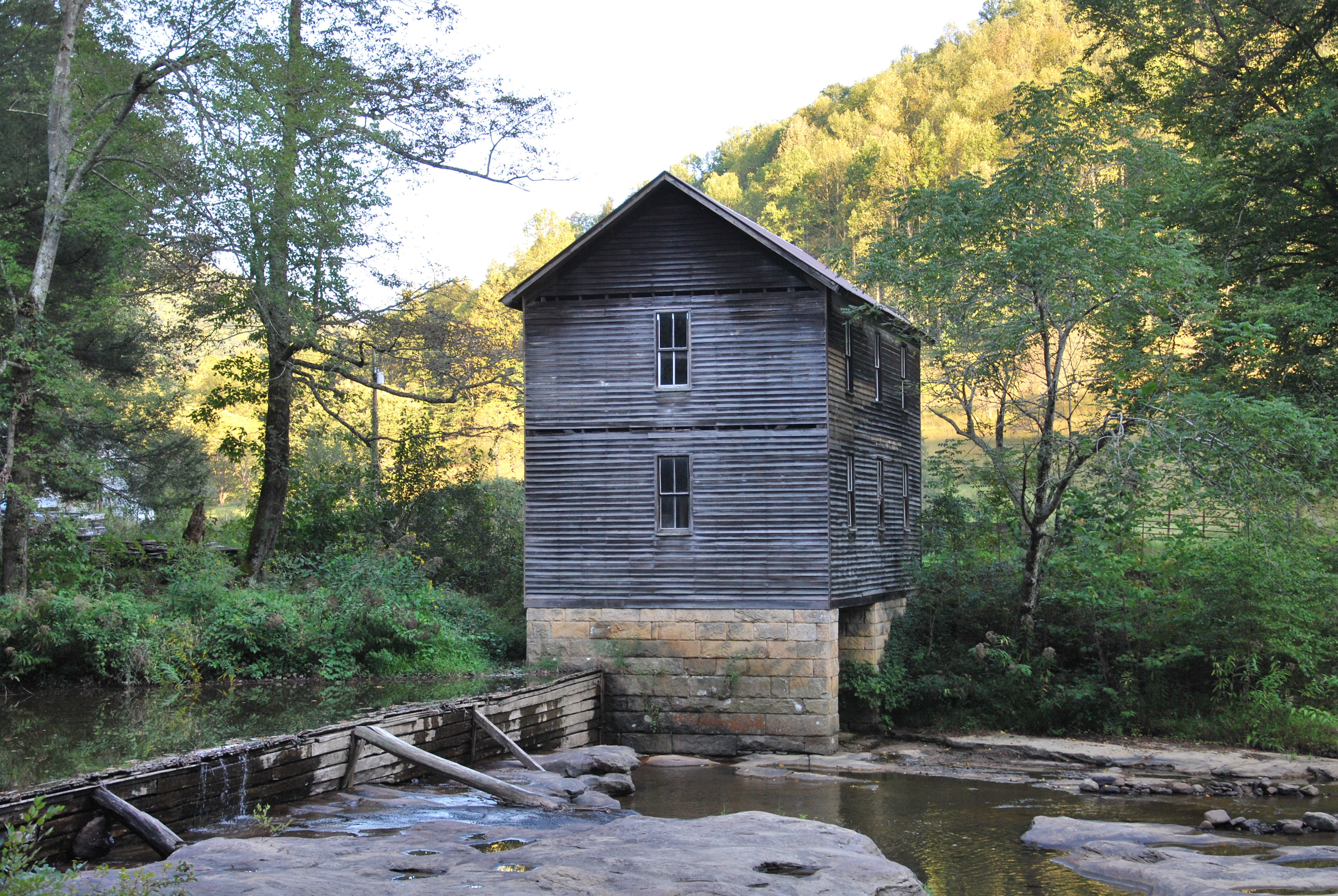 Mollohan Mill on the Left Fork Holly River in Webster County, West Virginia.